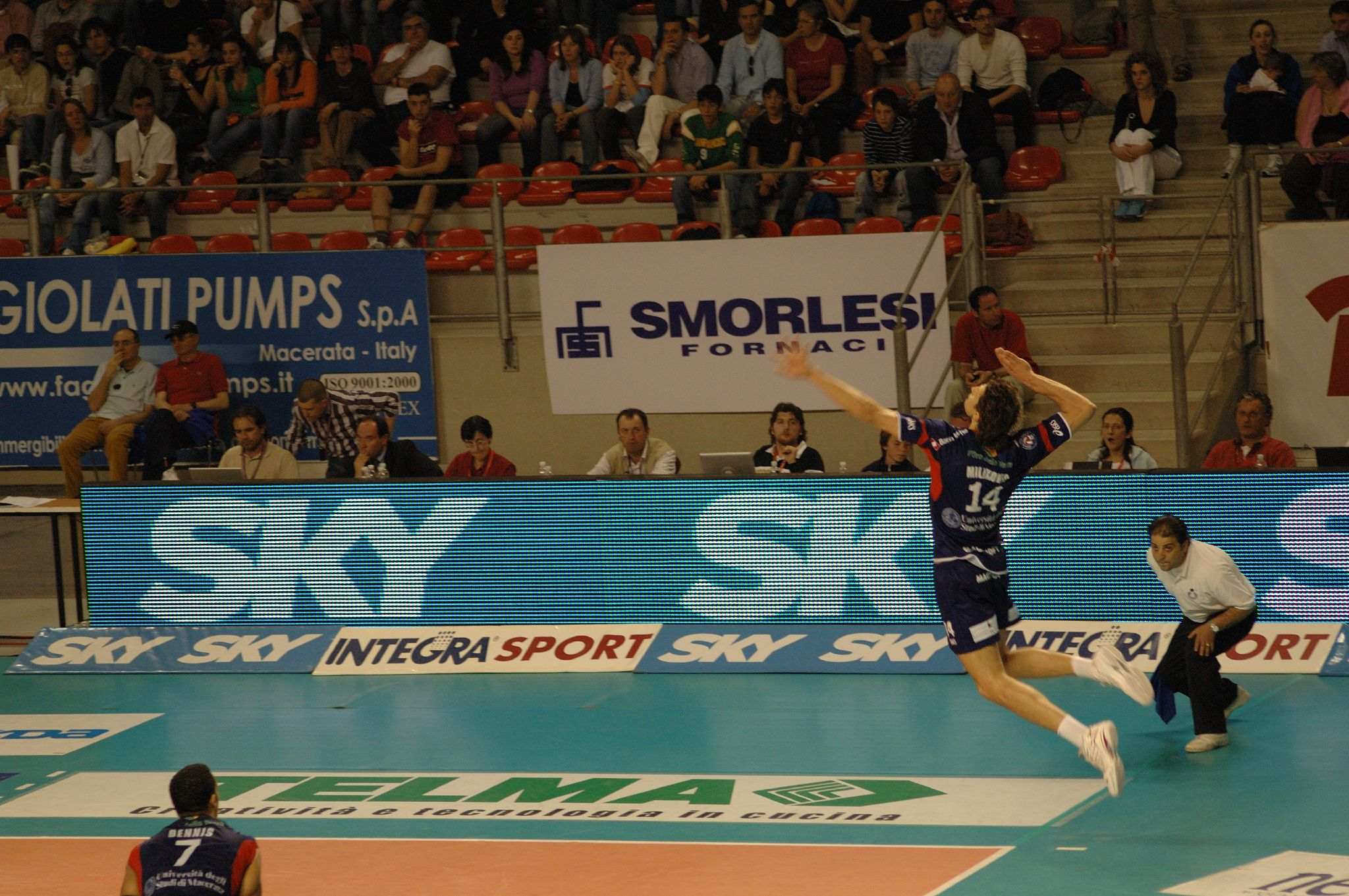 The Serbian volleyball player Ivan Miljkovic